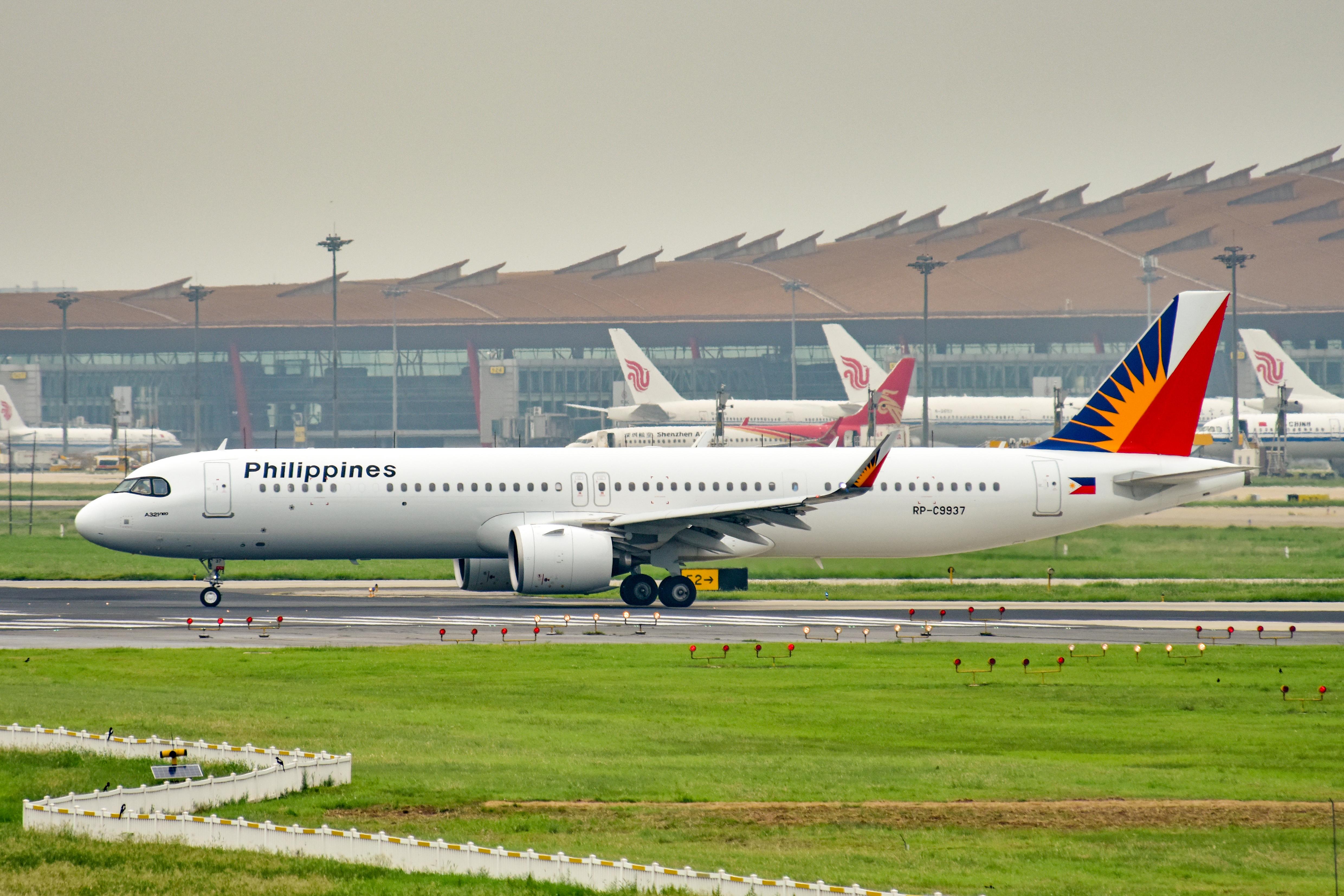 Philippine 359 to Manila. Interestingly enough, this is an A321-271NX which seems to have one door missing.